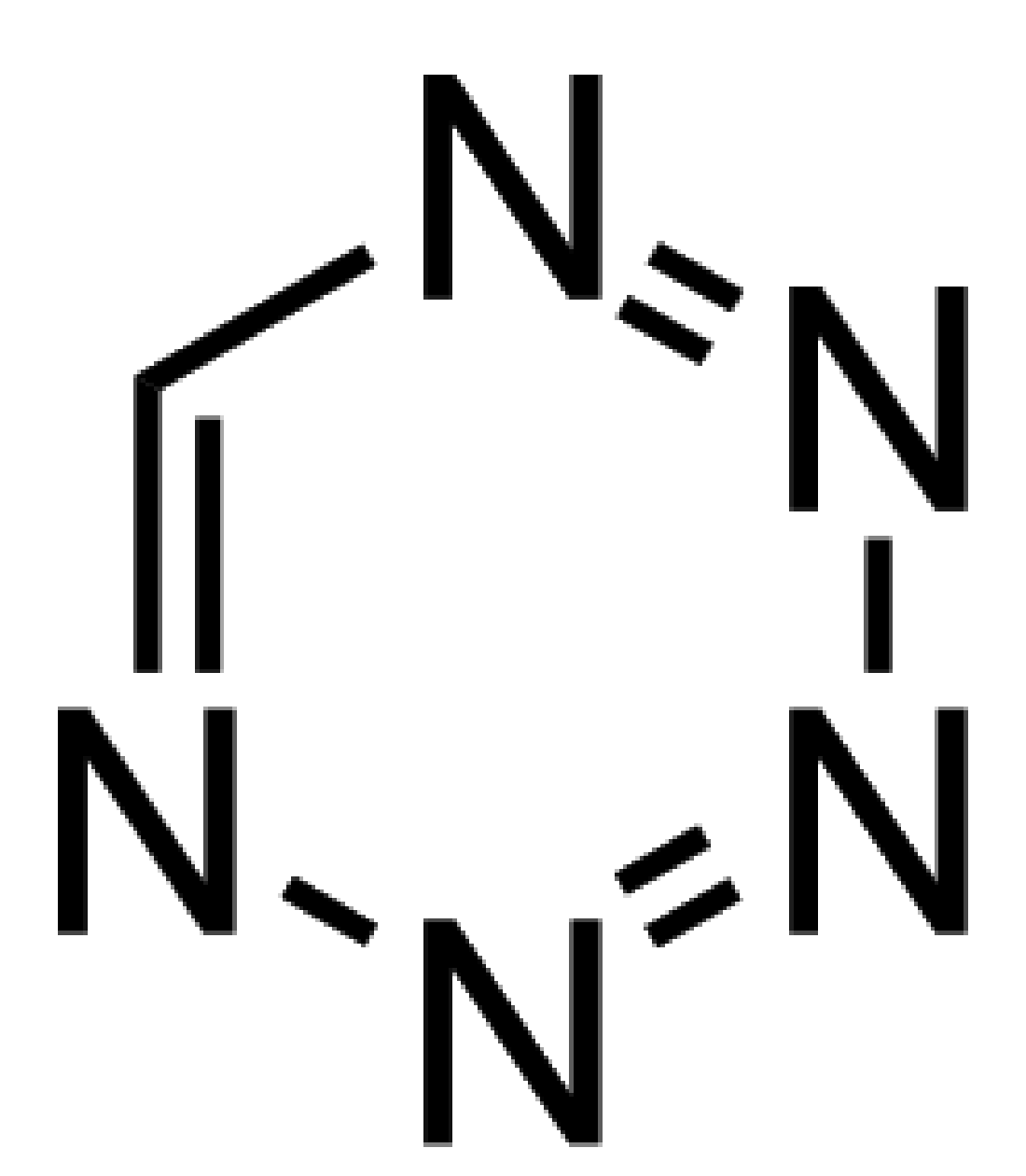 Chemical structure of pentazine